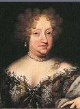 Sophie Amalie af Braunschweig-Lüneburg (1628-1685)